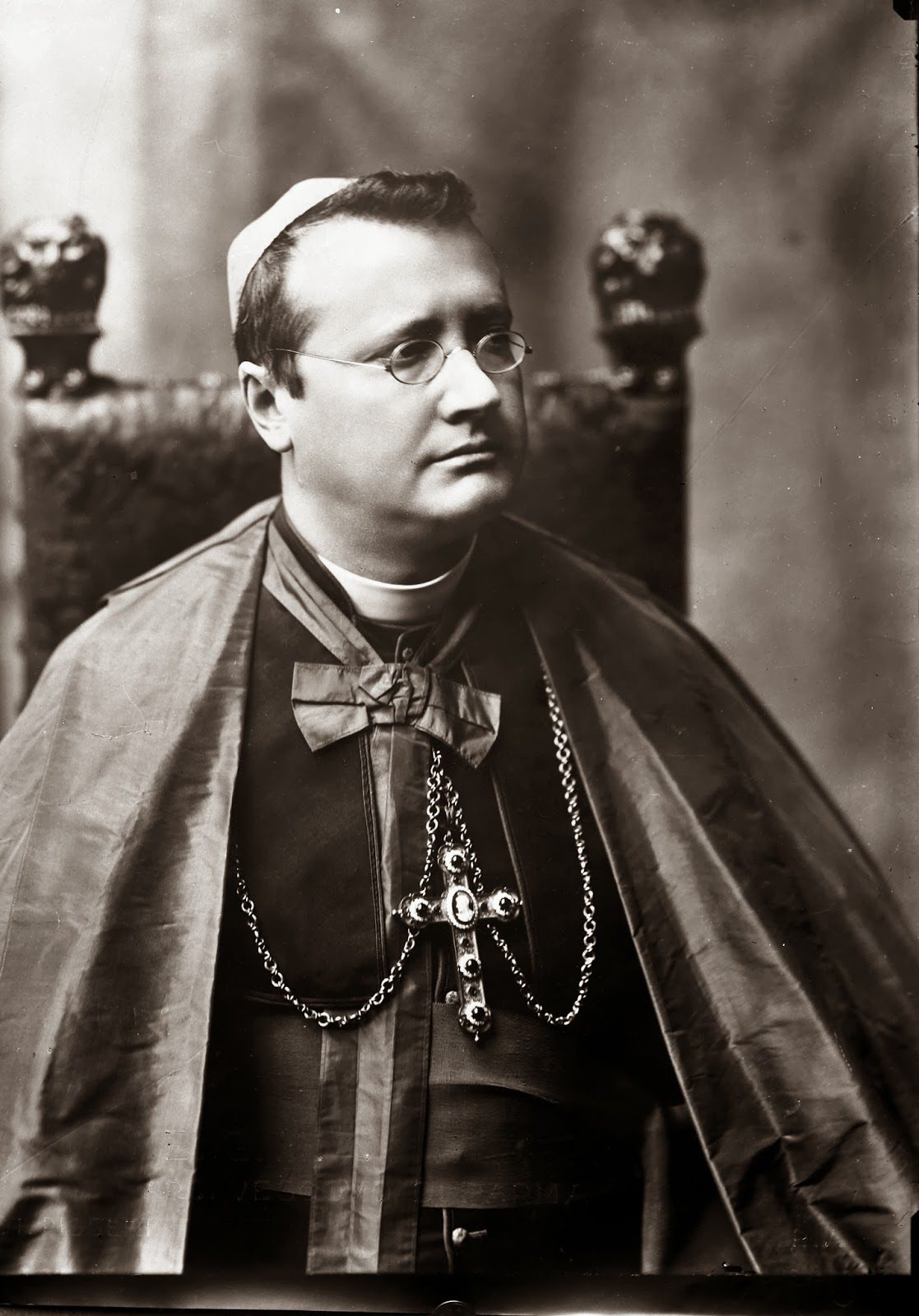 Archbishop Guido Maria Conforti (Parma 1865 - 1931)